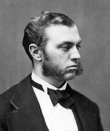 19th century photograph